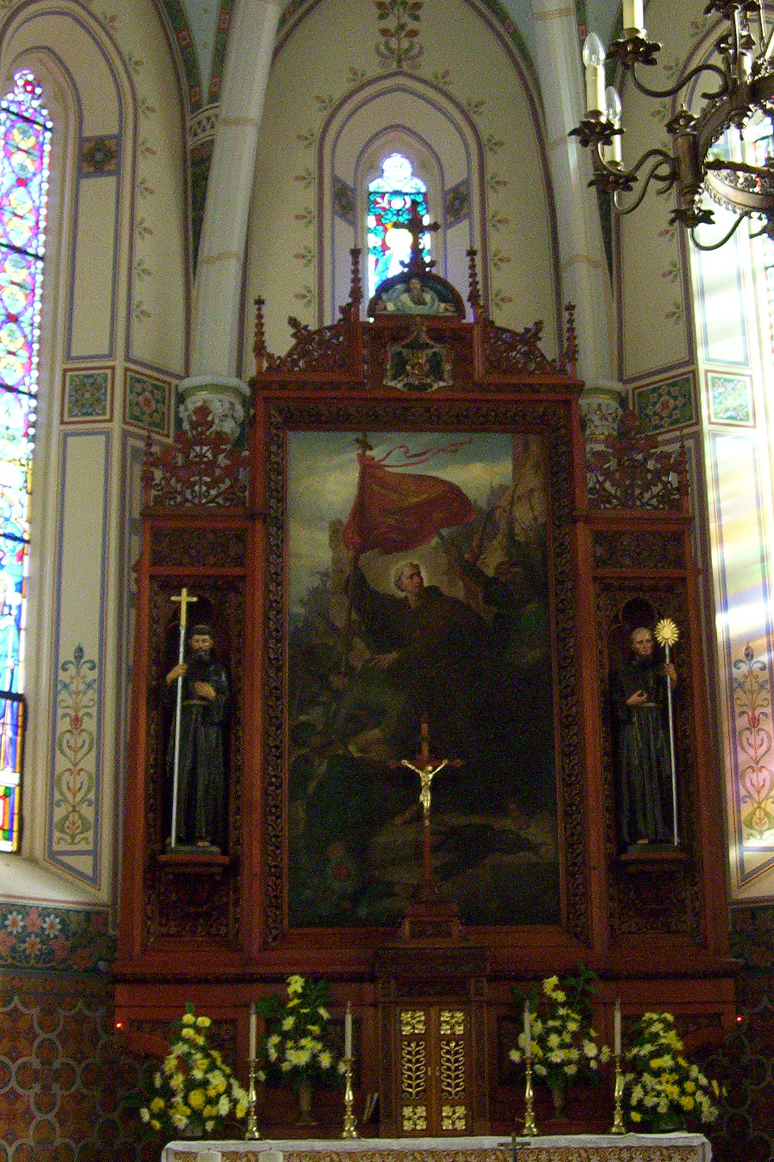 Giovanni da Capistrano, a patriot saint of a small town of Ilok in eastern Croatia. Altar in towns main church.